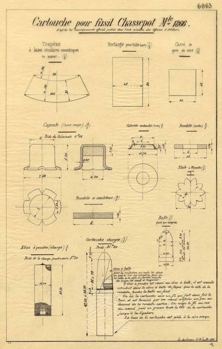 Blueprint Chasspot "Fusil modèle 1866" Paper cartridge.